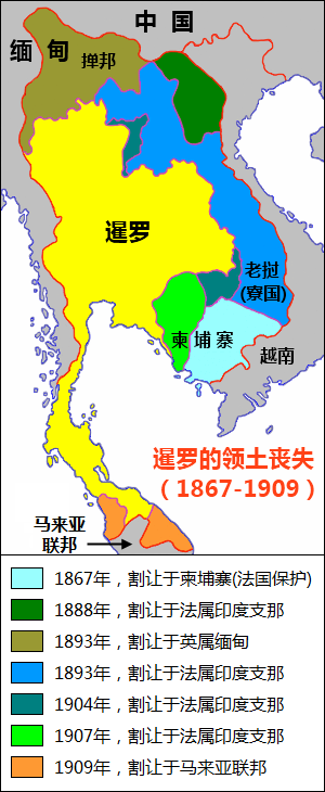 This picture is the schematic diagram of the territory of the losses of Thailand Chakri dynasty during the 1867-1909 year.